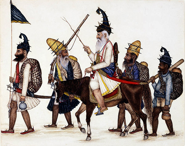 Pencil, ink, watercolor, gold and silver on paper. Similar